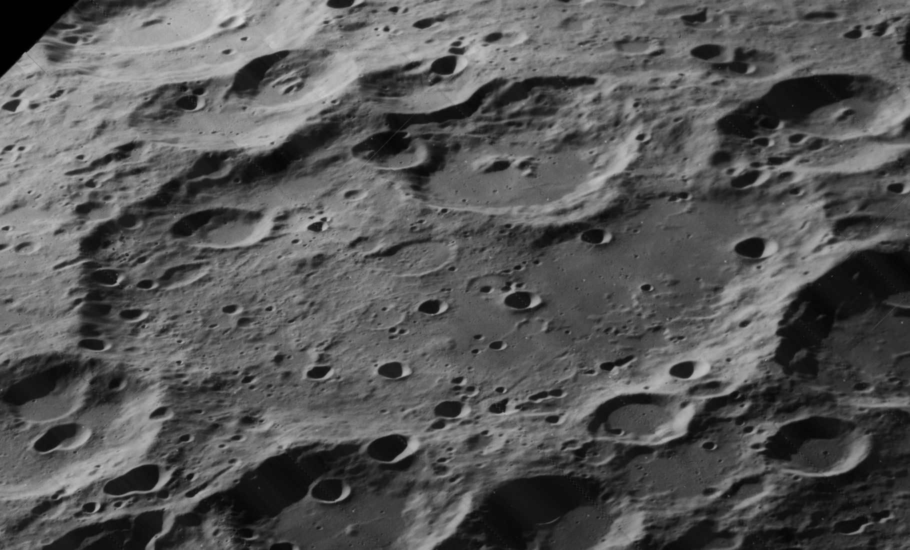 Oblique view of Landau, on the far side of the moon, facing west. (Black field in upper left is edge of original photo.)